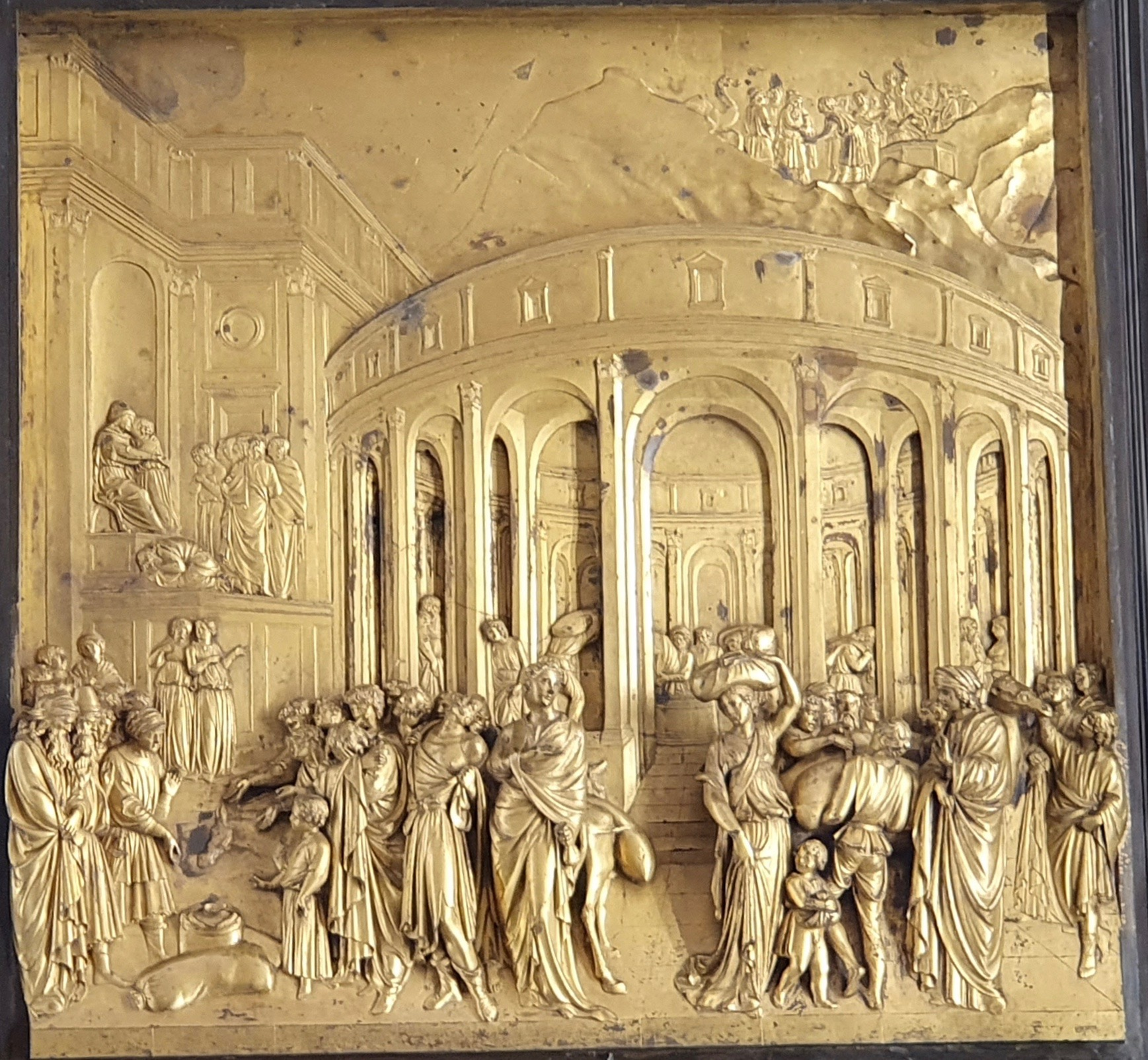 Joseph at The Gates of Paradise by Lorenzo Ghiberti